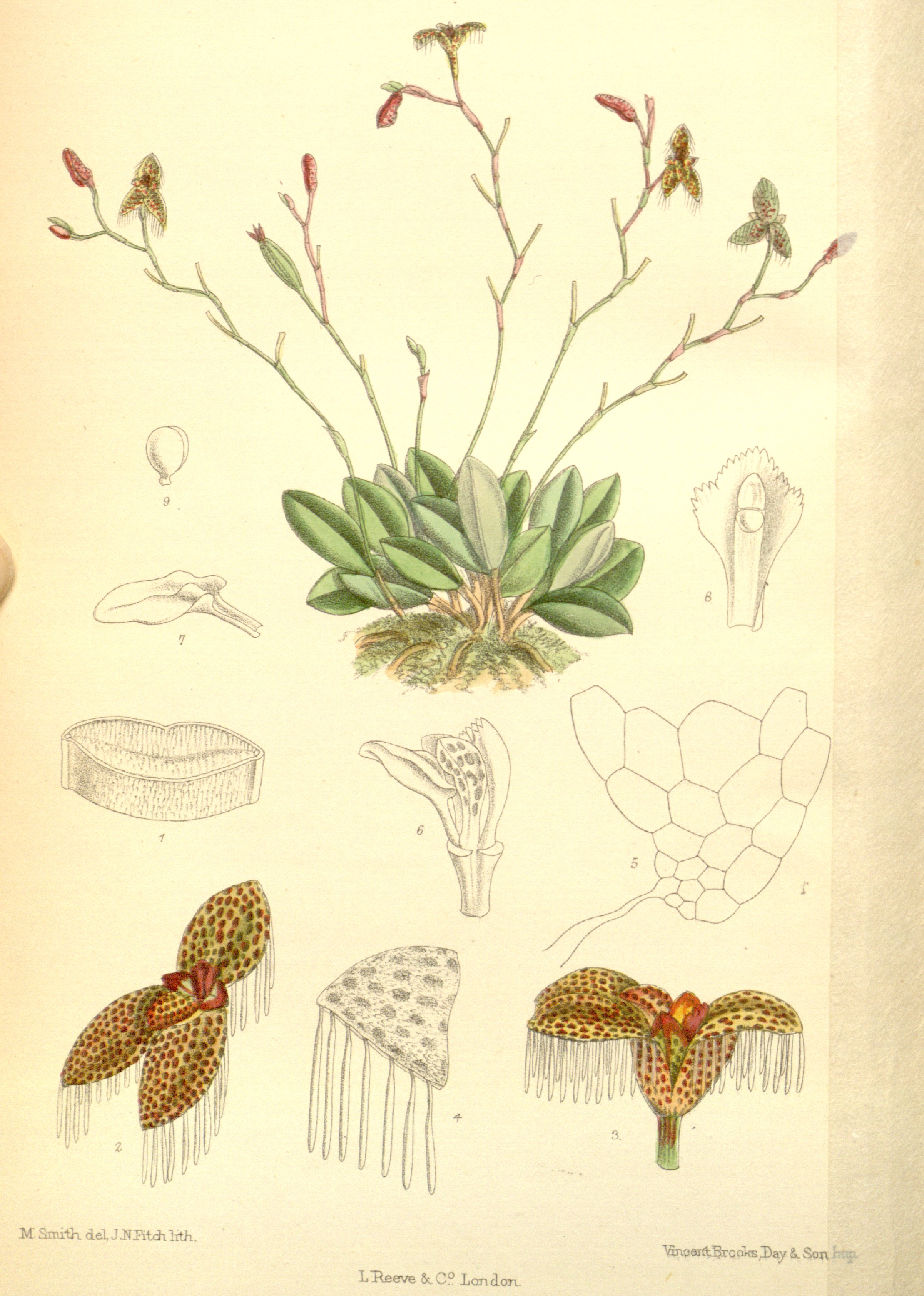 Illustration of Stelis ornata (as syn. Pleurothallis ornata)